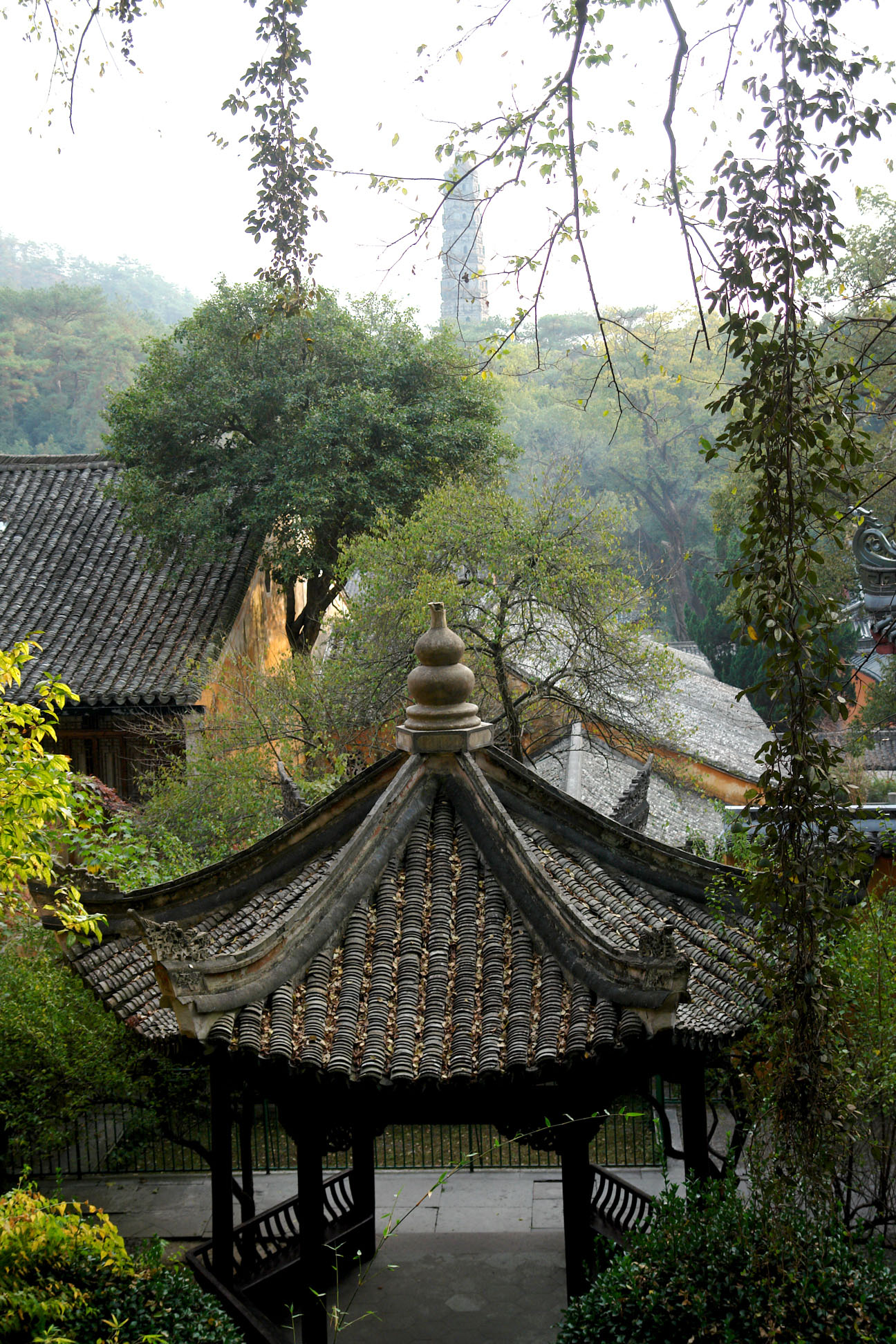 Guoqing Temple at Tiantai, Zhejiang, China